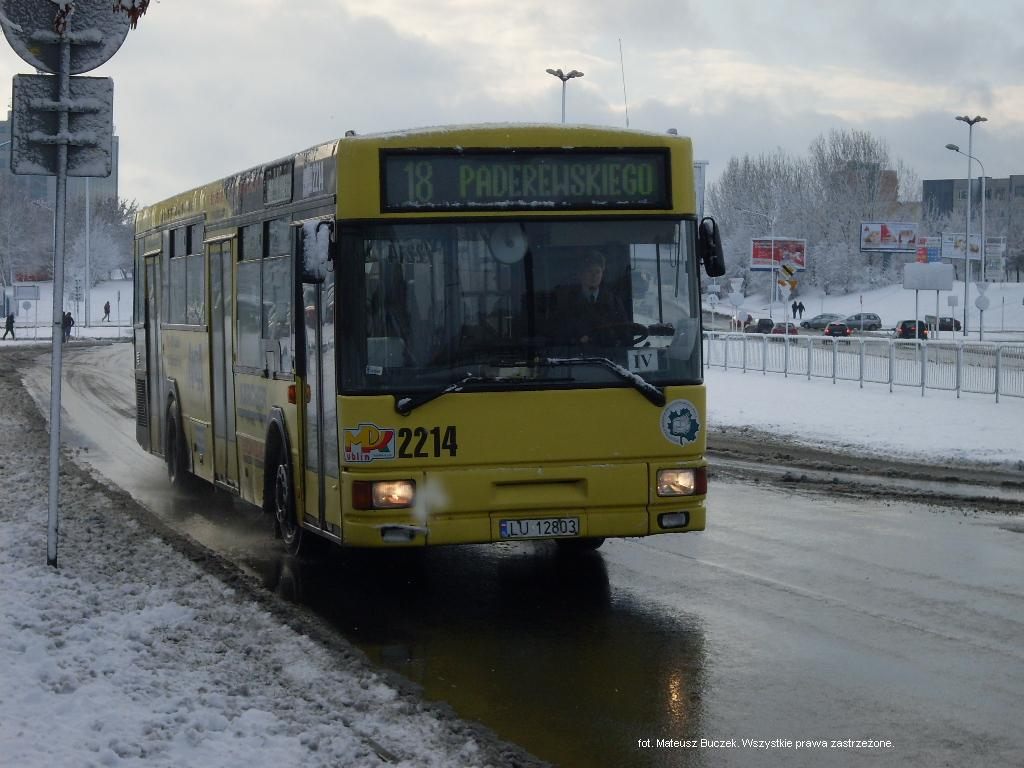 Jelcz M121M city bus (#2214) in Lublin, Poland. Built 1997, MPK Lublin operator.